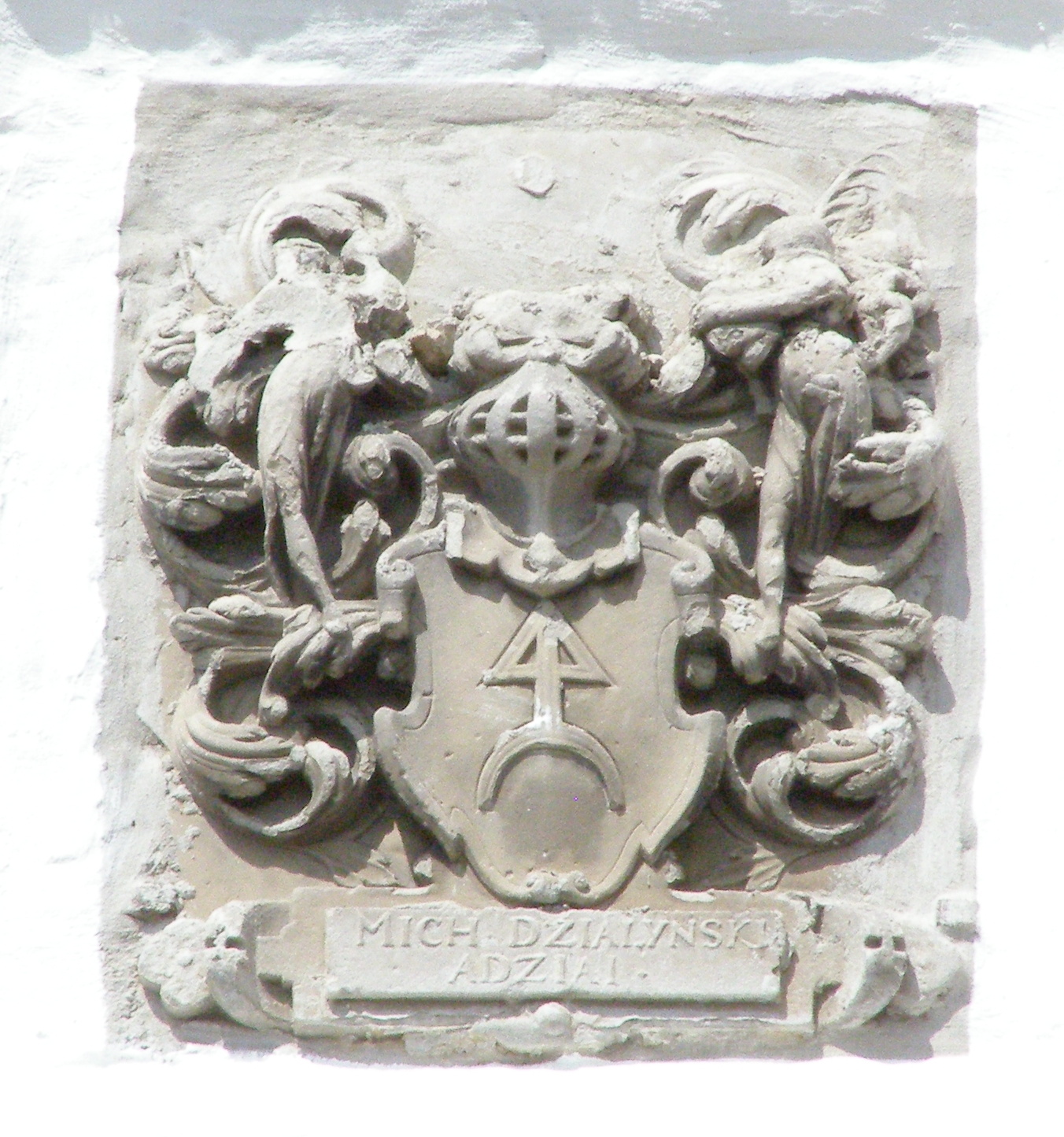 Nieszawa - a detail of the St. Hedwig church